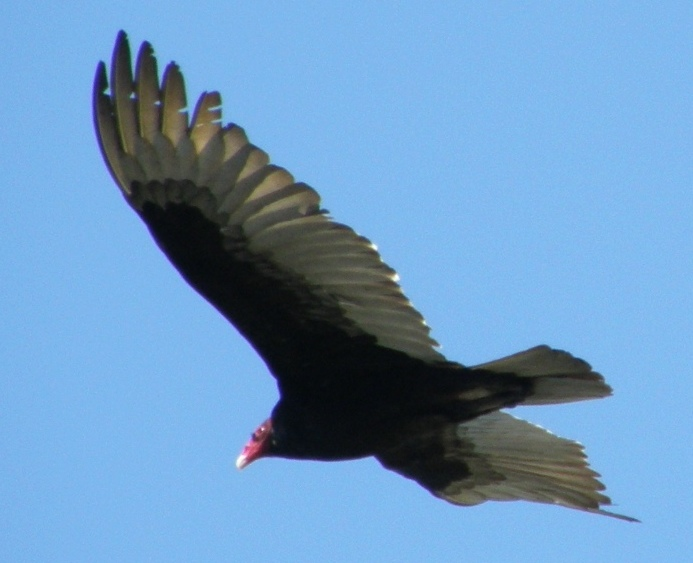 Turkey Vulture soaring over Bodega Head, California